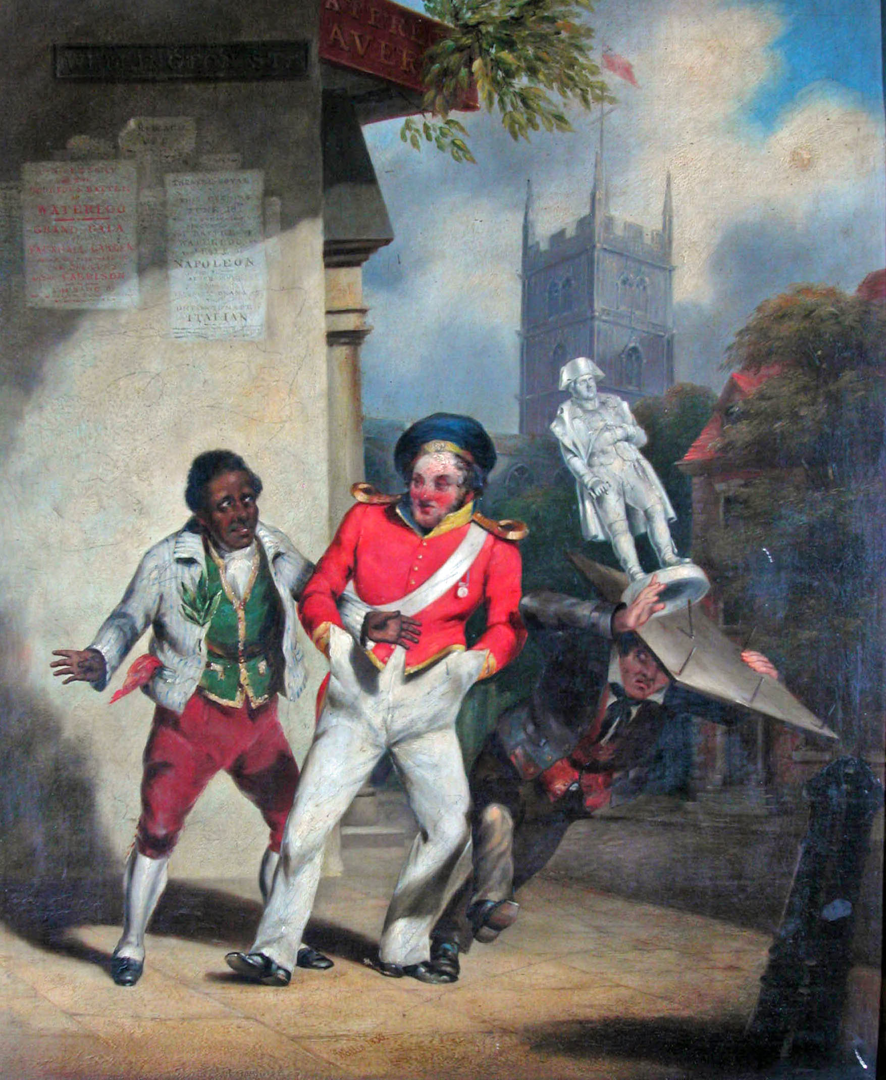 George Wallis. Fall of Napoleon. 1834